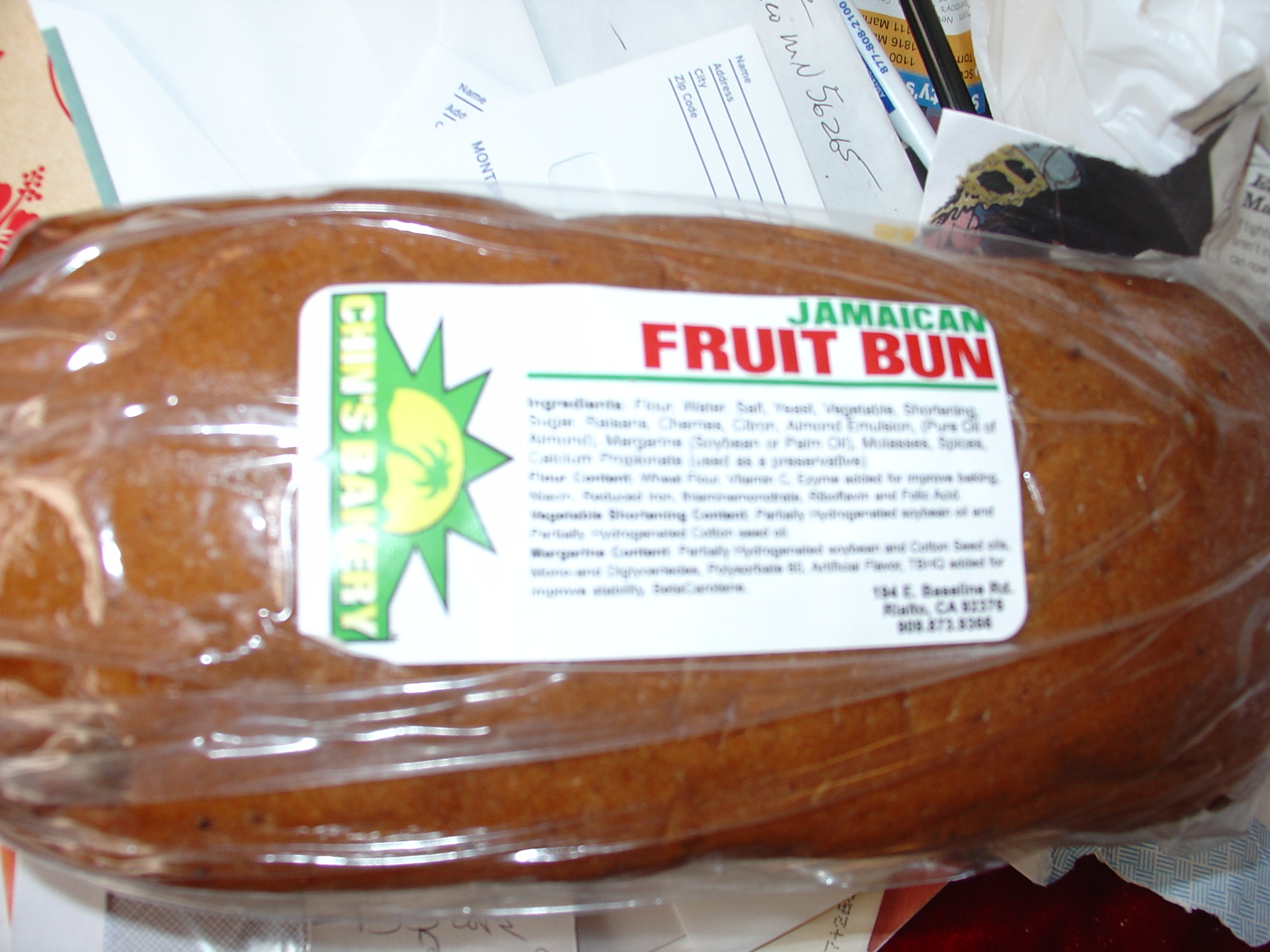 Jamaican fruit bun loaf of bread from a Los Angeles market (2009). Photo by ChildofMidnight. Attribution required.